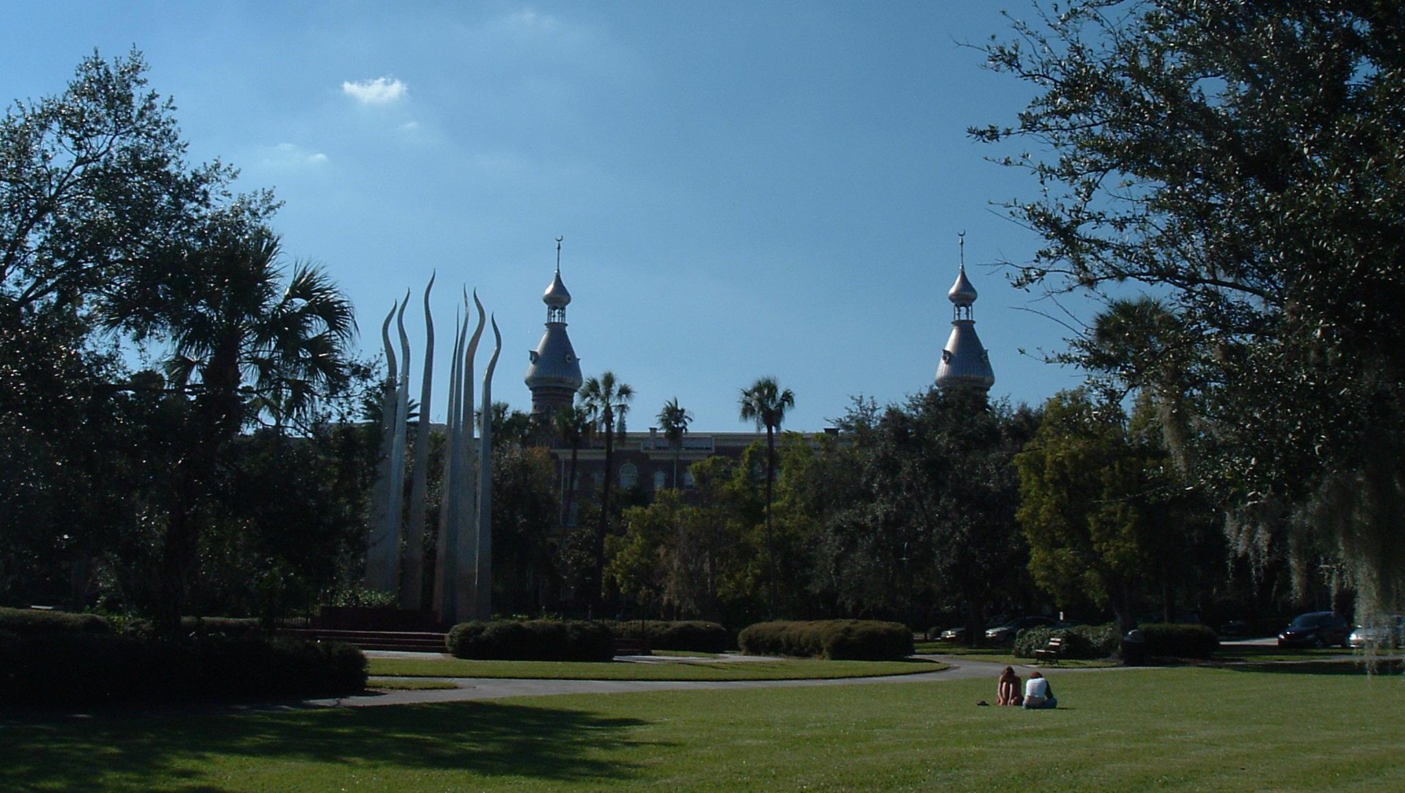 Tampa Bay Hotel, Tampa, Florida, USA : Plant Park looking back to Plant Hall. The "Sticks of Fire" are to the left side.